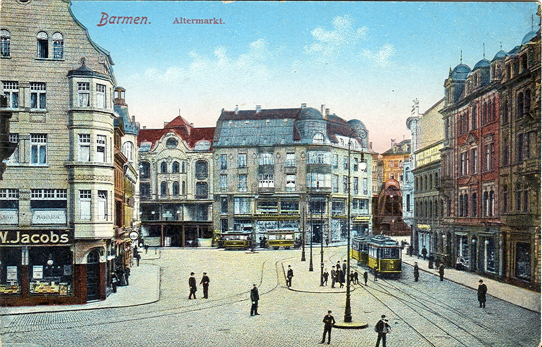 Postcard, undated ( ca.1914 ). Title: "Barmen - Old market".